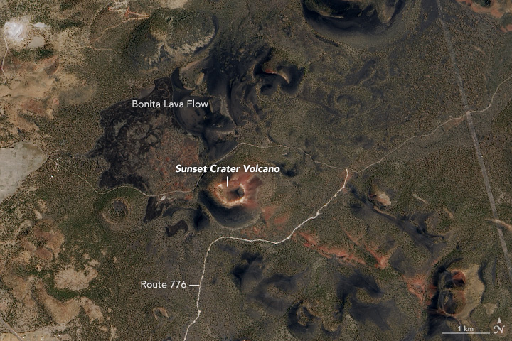 On July 12, 2016, the Operational Land Imager (OLI) on the Landsat 8 satellite captured a natural-color image (above) of the crater and the surrounding San Francisco Volcanic Field. The image was draped over terrain data from the Advanced Spaceborne Thermal Emission and Reflection Radiometer (ASTER). Note: the scene was rotated to create this image, so north is to the right. The closeup below shows Sunset Crater as observed by OLI, but without the terrain drape (north is up). To the east of the cone, a field of dark, hardened rock from the Bonita Lava Flow is still visible.